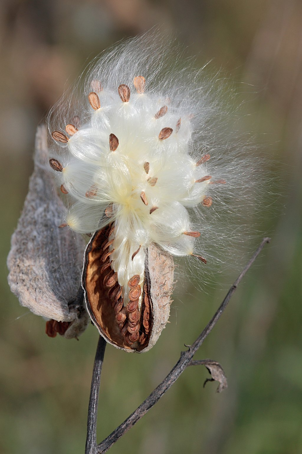 Asclepias syriaca (Common Milkweed), gone to seed -- Forks of the Credit Provincial Park, Ontario, Canada -- 2006 October